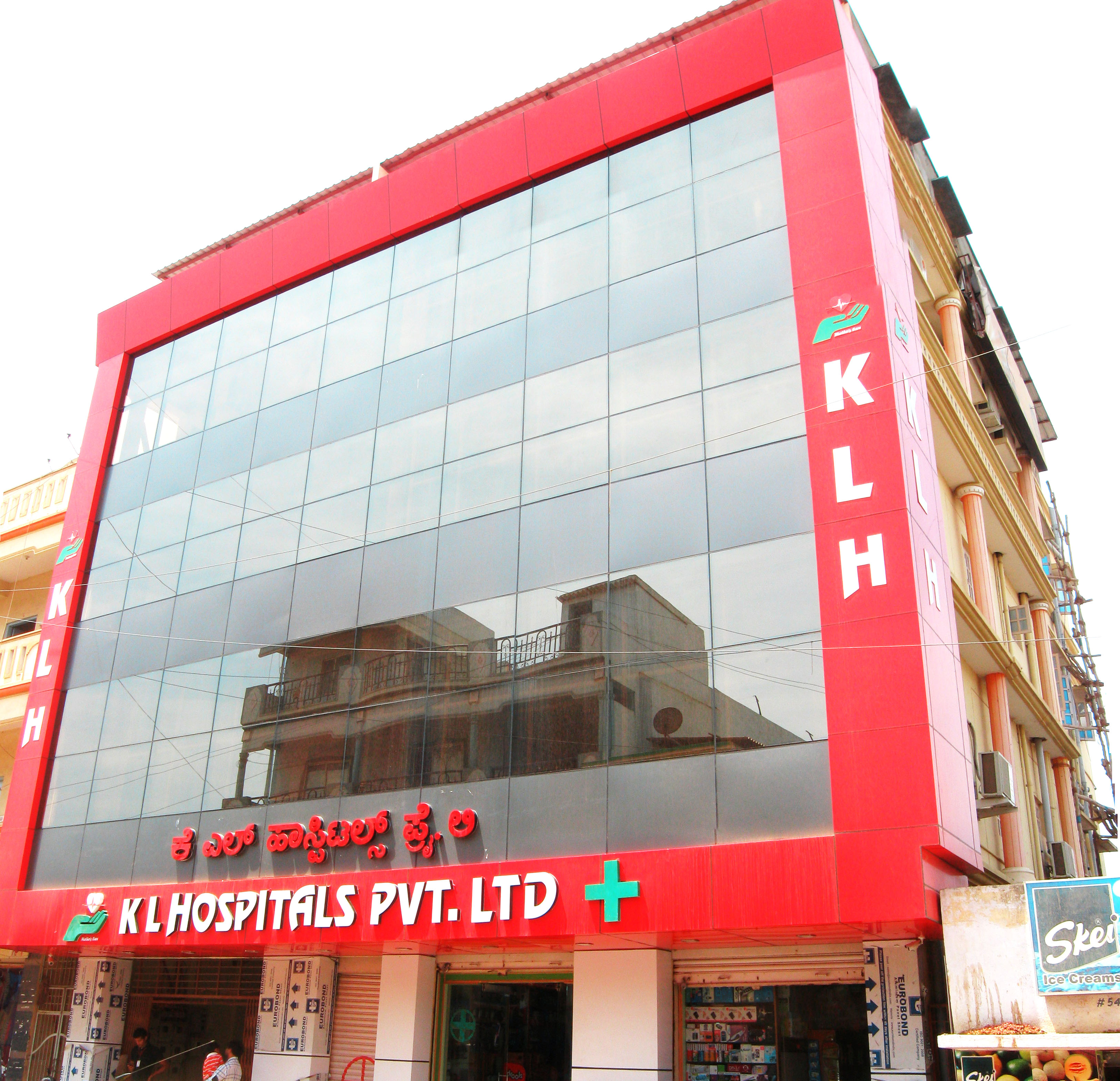 K L Hospital, Ramamurthy Nagar